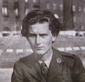 Photograph of the Danish resistance member Varinka Wichfeld Muus (1922-2002), cropped version